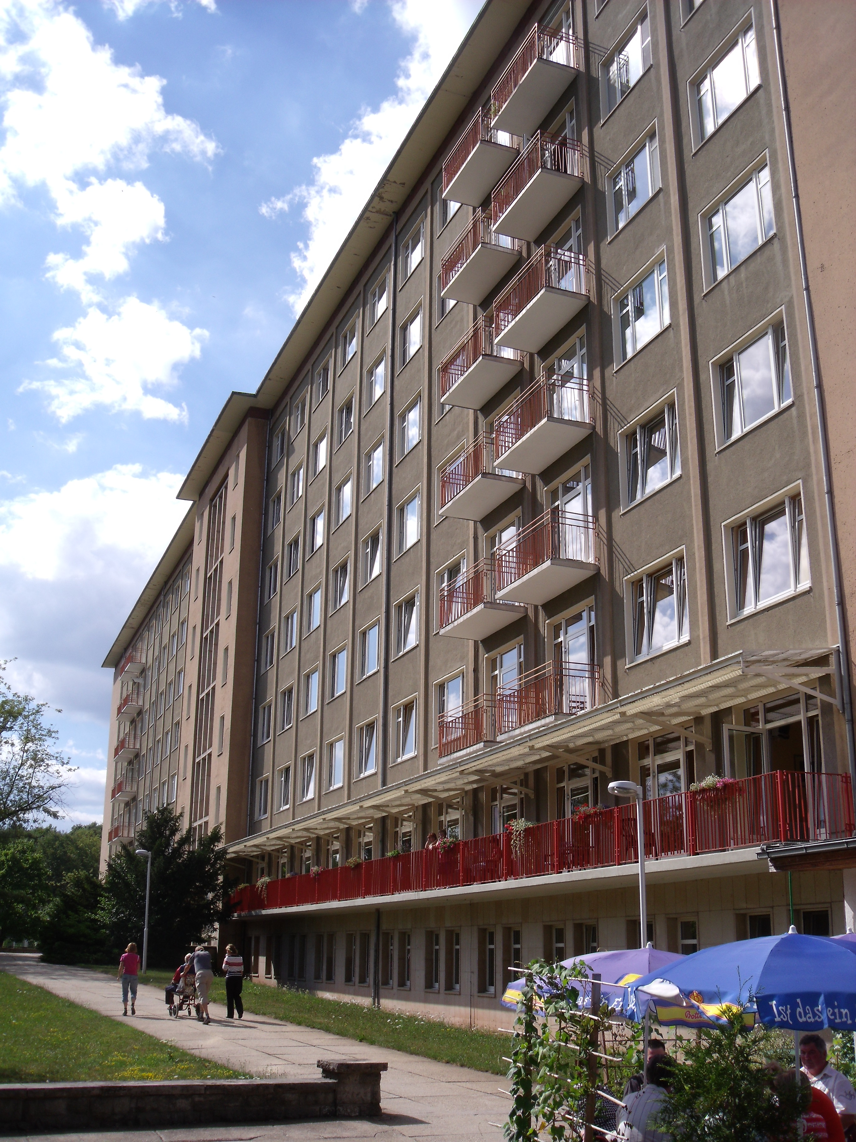 SRH Waldklinikum Gera in the year 2010: Former Wismut miners' hospital